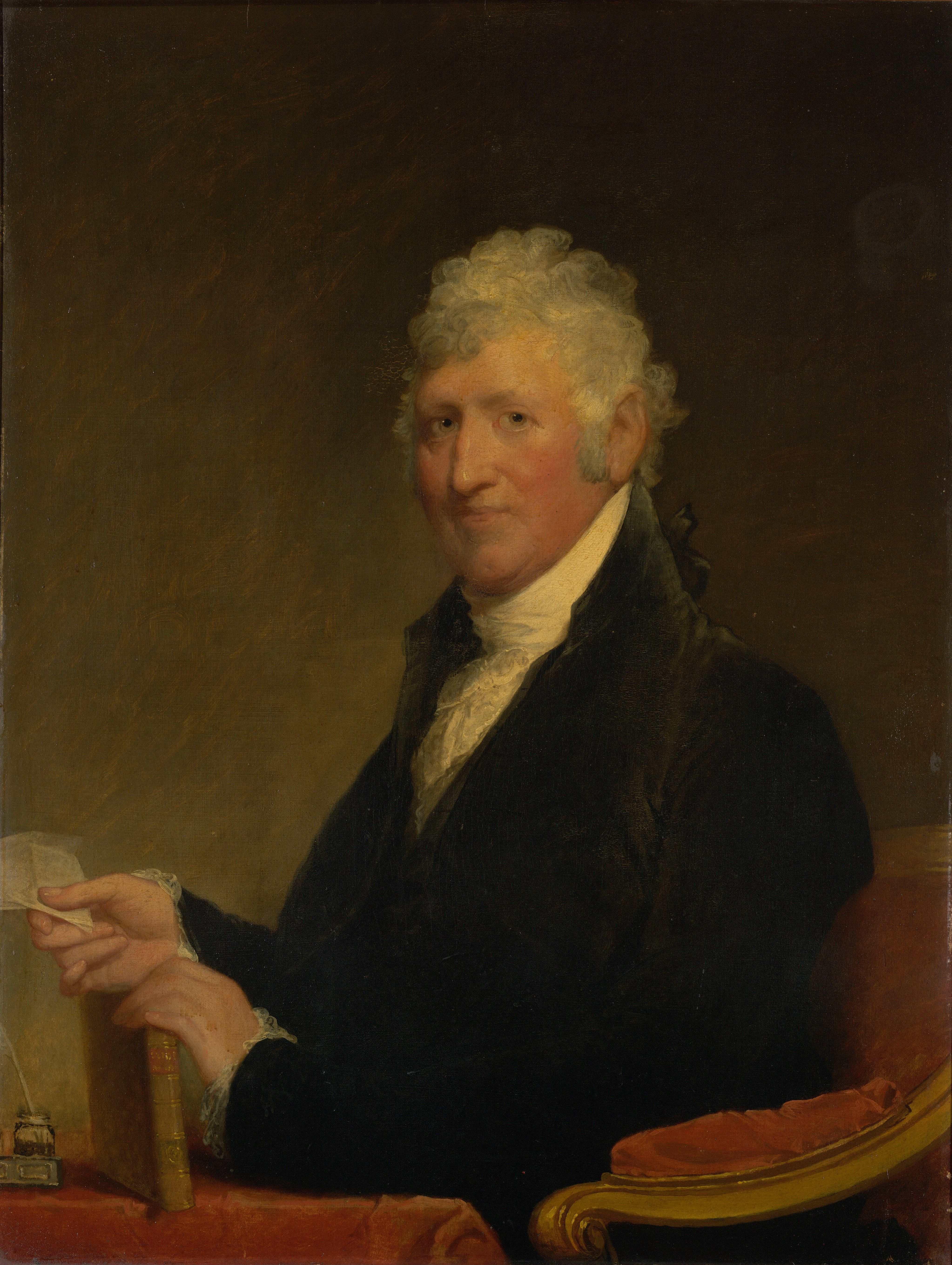 "Colonel David Humphreys (1752-1818), B.A. 1771, M.A. 1774."